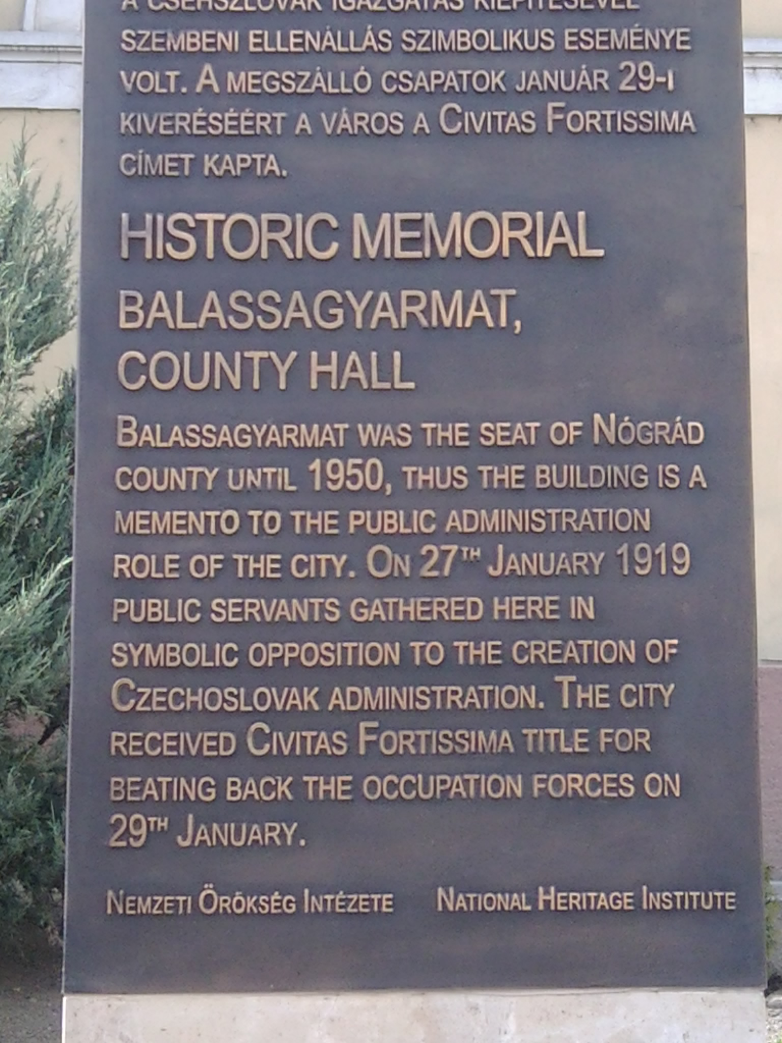 Historic memorial place of National Heritage Institute in front of the County Hall